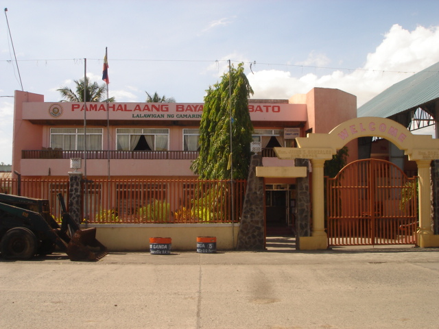 Municipal building of Bato, Camarines Sur, Philippines